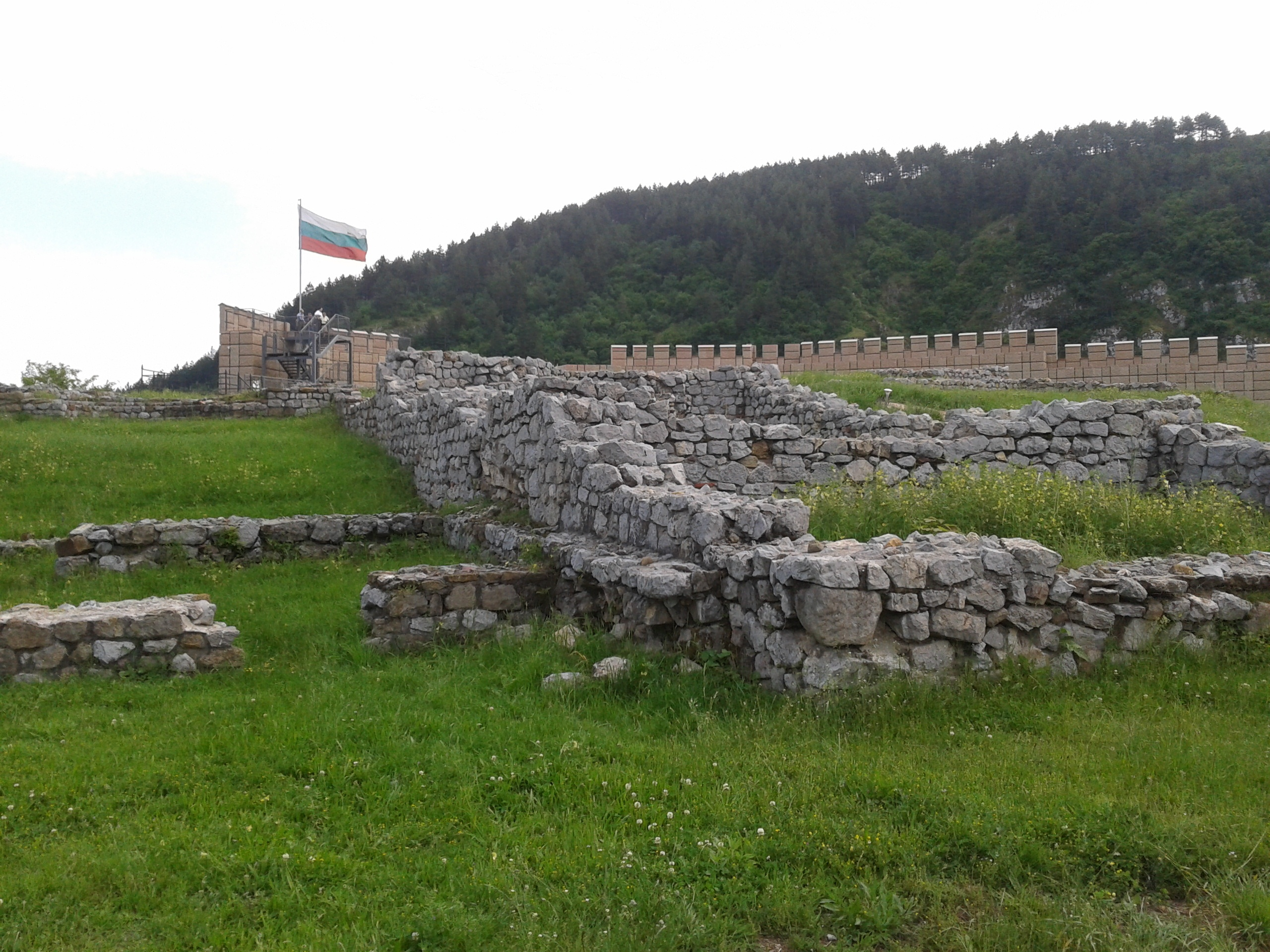 Medieval fortress Krakra near Pernik